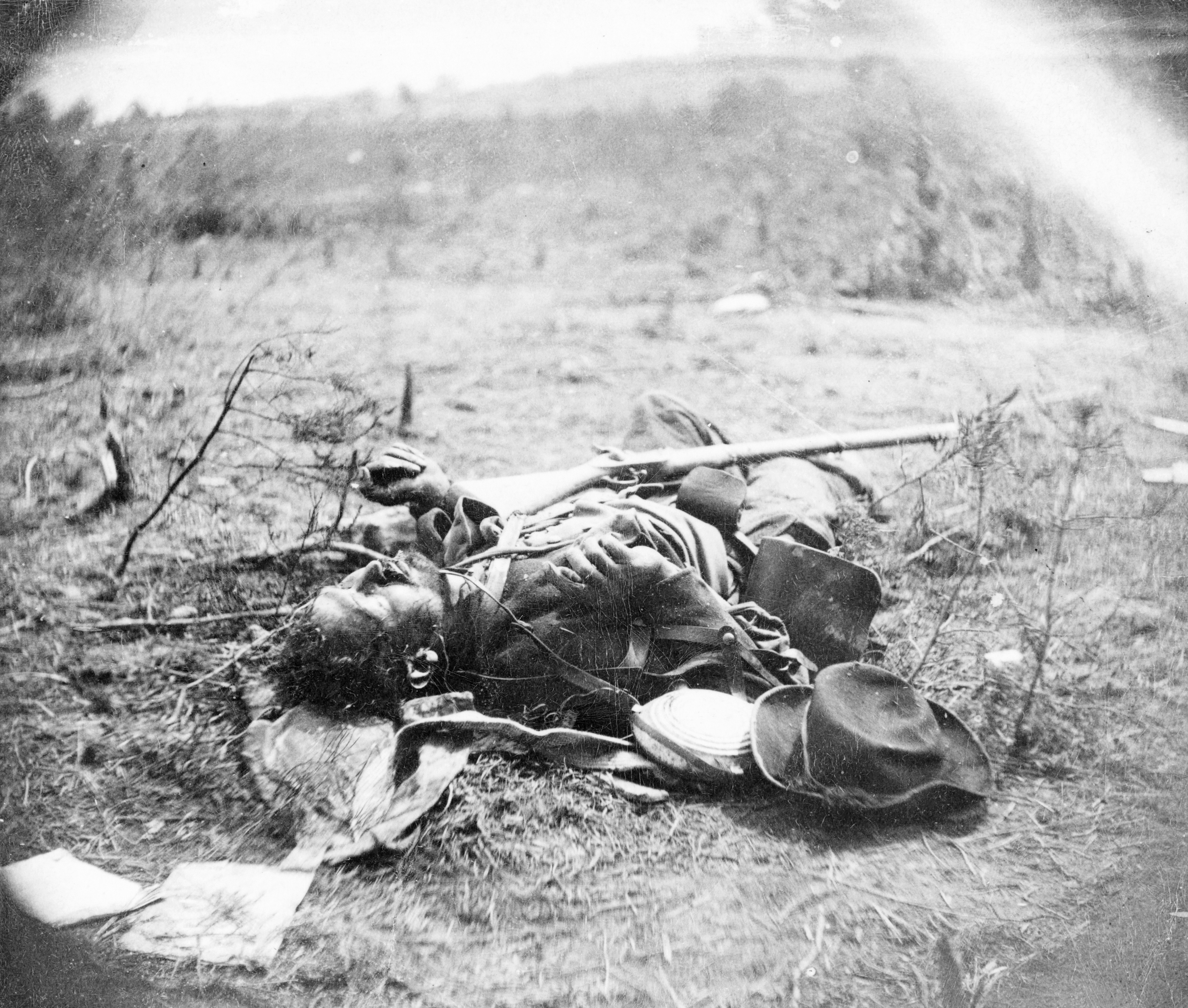 Scene of Ewell's attack, May 19, 1864, near Spottsylvania [i.e. Spotsylvania] Court House. Dead Confederate soldier